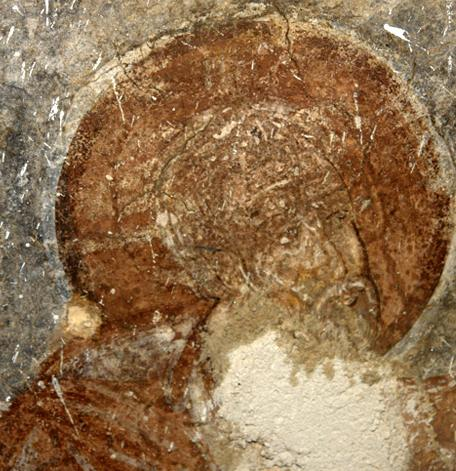 Frescos in St. Demetrius Church in historical village Čebren, Macedonia